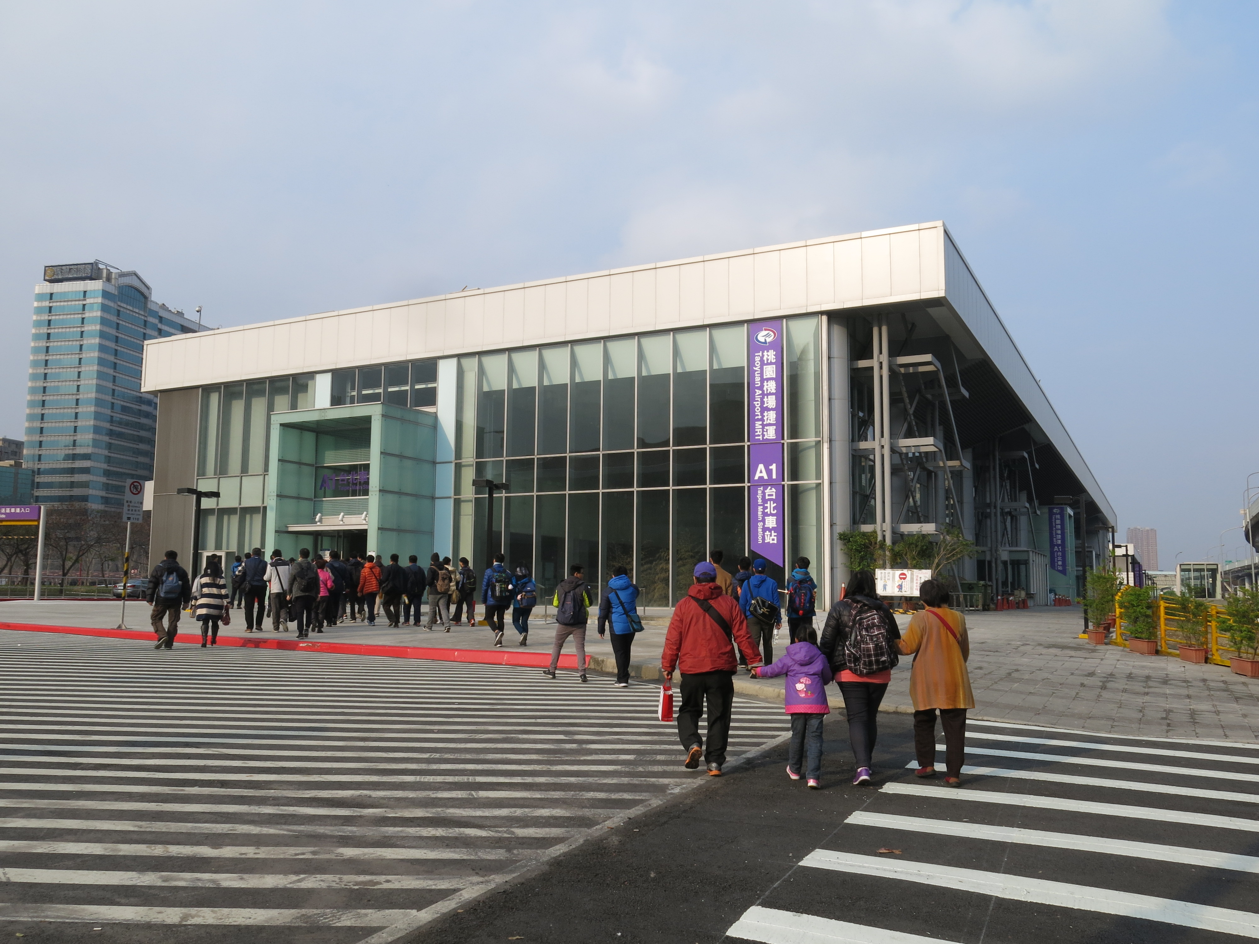 Taoyuan Metro A1 Taipei Main Station 中文（中国大陆）: 桃园捷运机场线A1台北车站